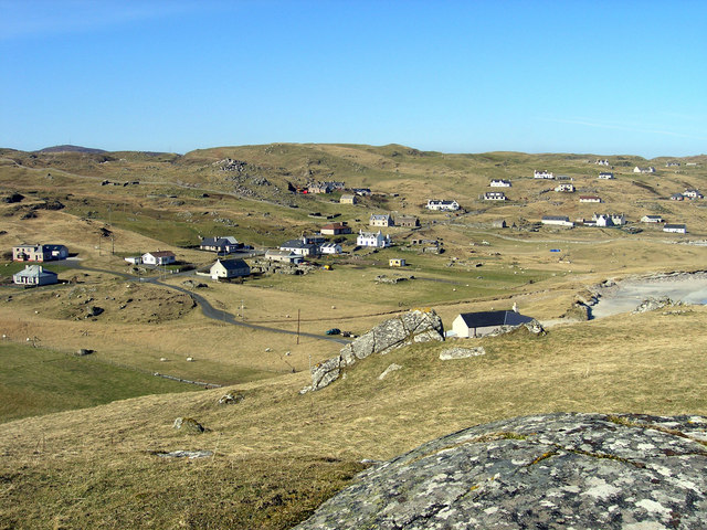 Kneep and Valtos on the Isle of Lewis. The following is the description of the photo by the creator of the photo (see source): "The adjoining villages of Kneep (left) and Valtos (right) on the Valtos Peninsula. The boundary wall between the villages can just be seen, running top left to middle right".